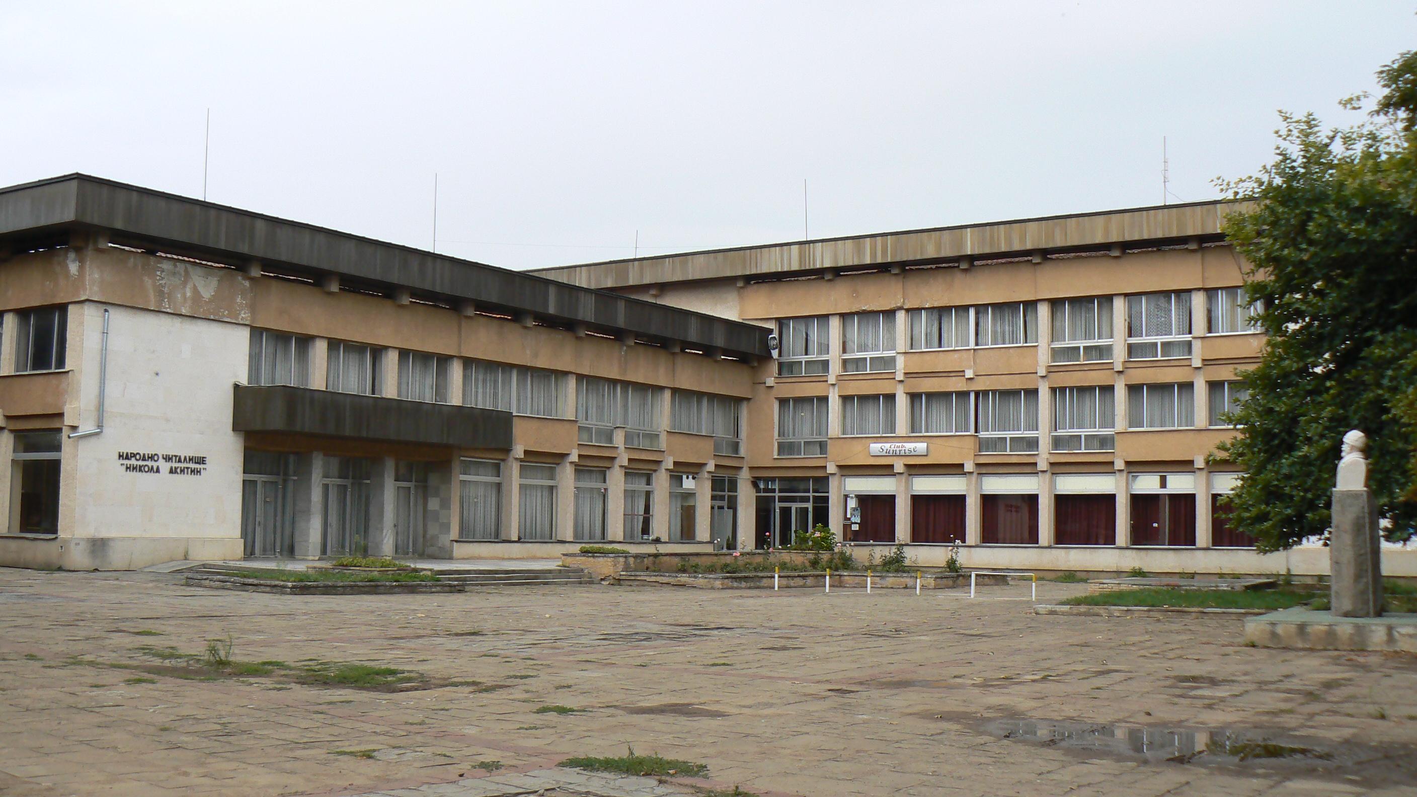 Library "Nikola Rakitin" in village Trudovets, Bulgaria